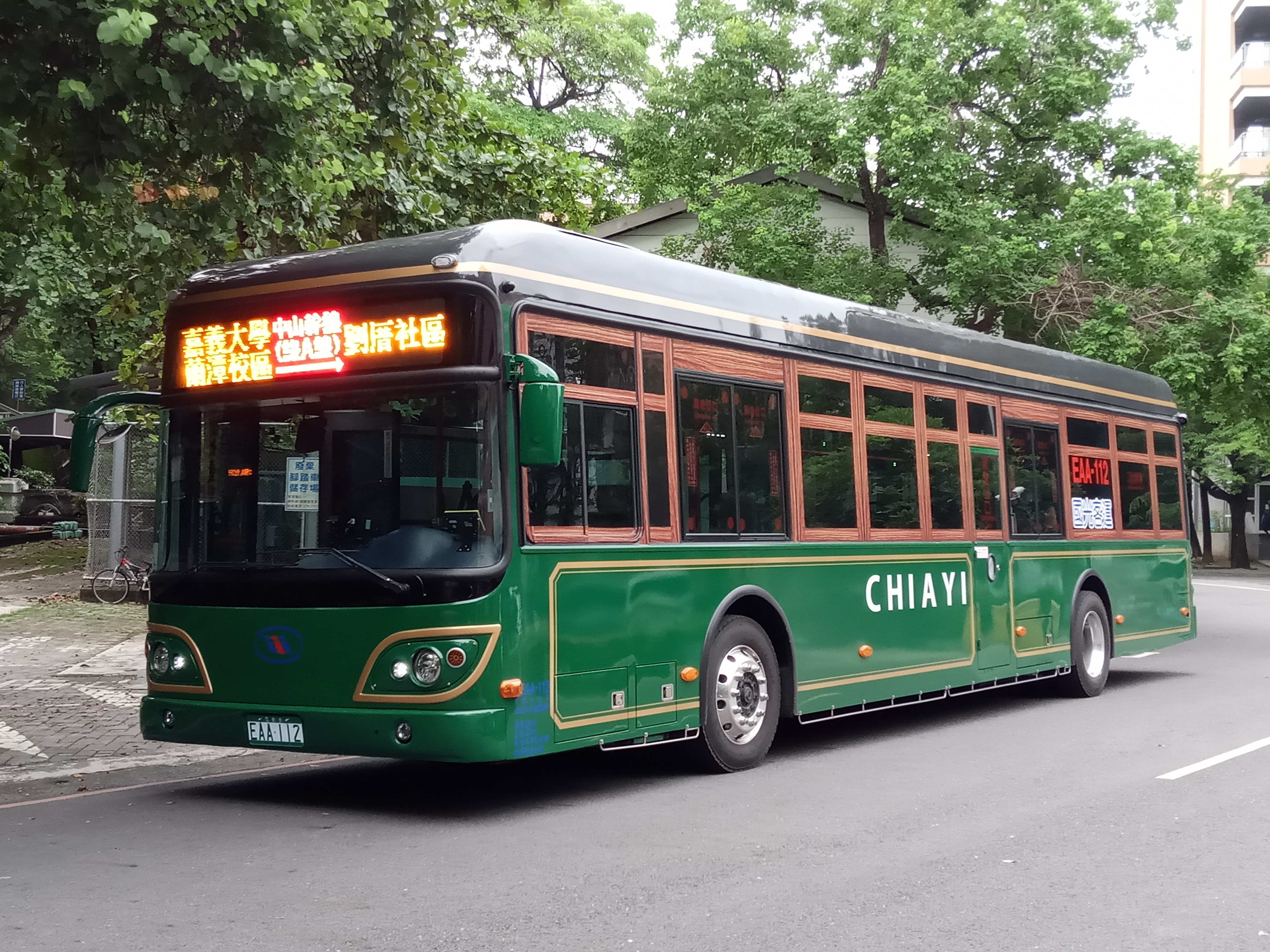 Chiayi City Bus Zhongshan Main Line A Route